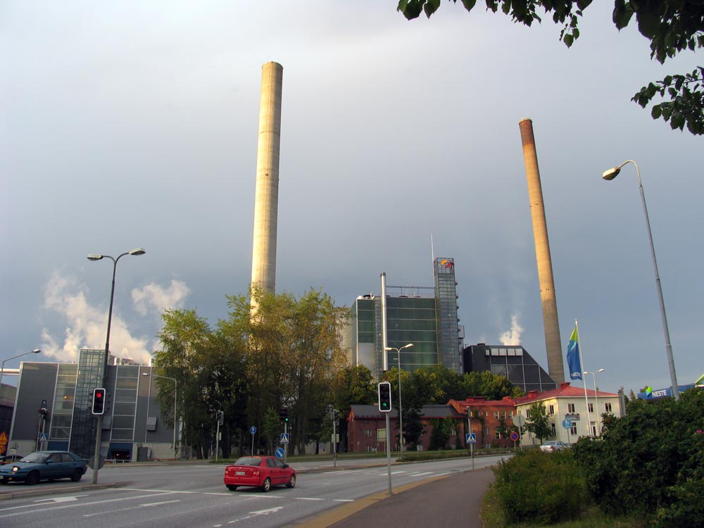 Stora Enso pulp factories in Varkaus, Finland. Highway 23 in the foreground.